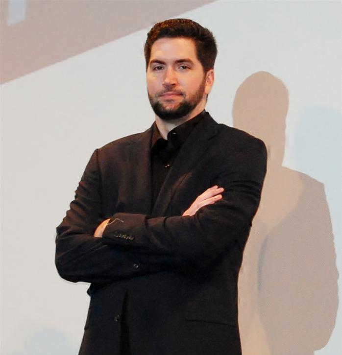 Director/co-writer Drew Goddard